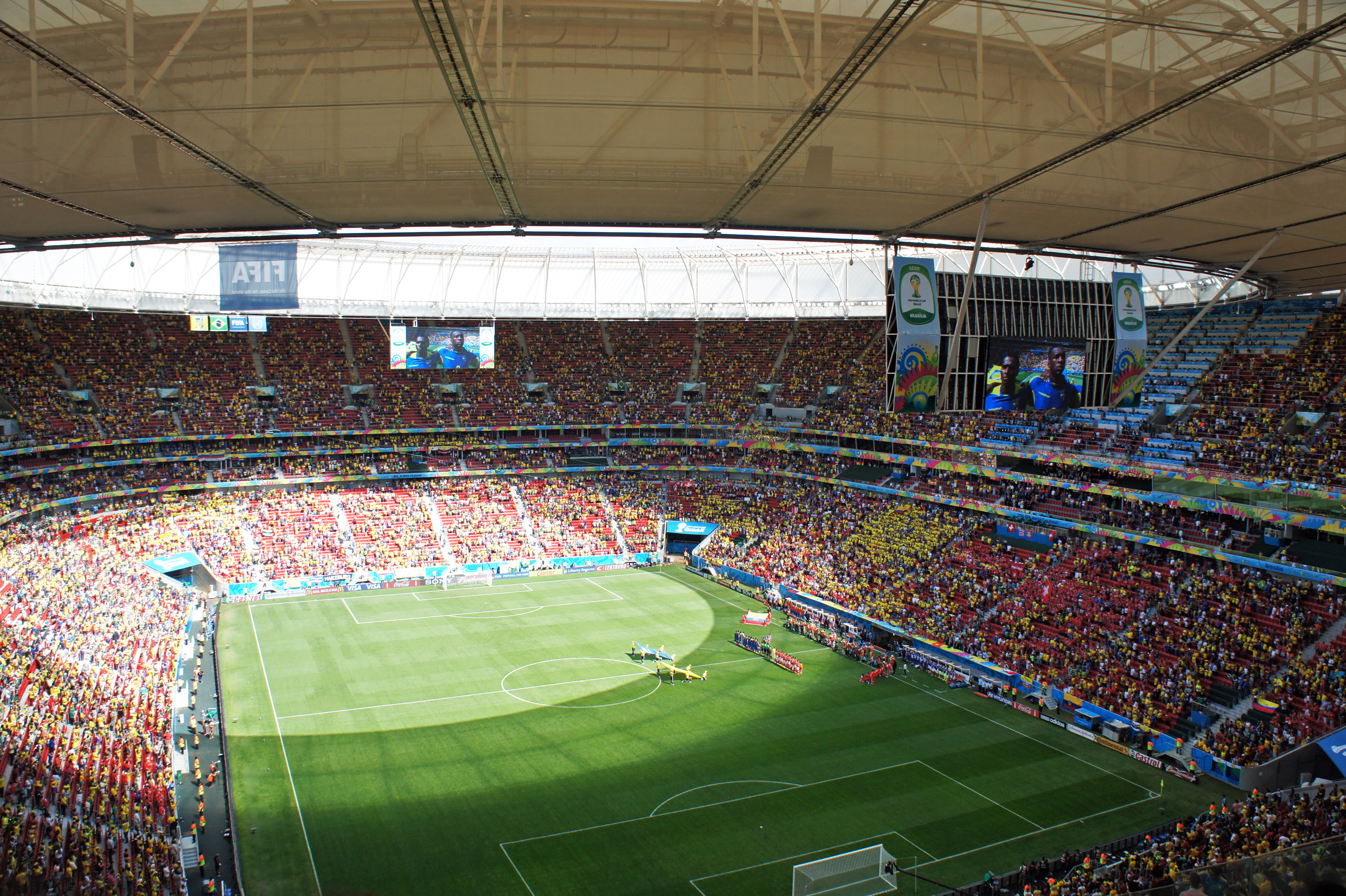 Switzerland and Ecuador match at the 2014 FIFA World Cup , Estádio Nacional Mané Garrincha, Brasilia